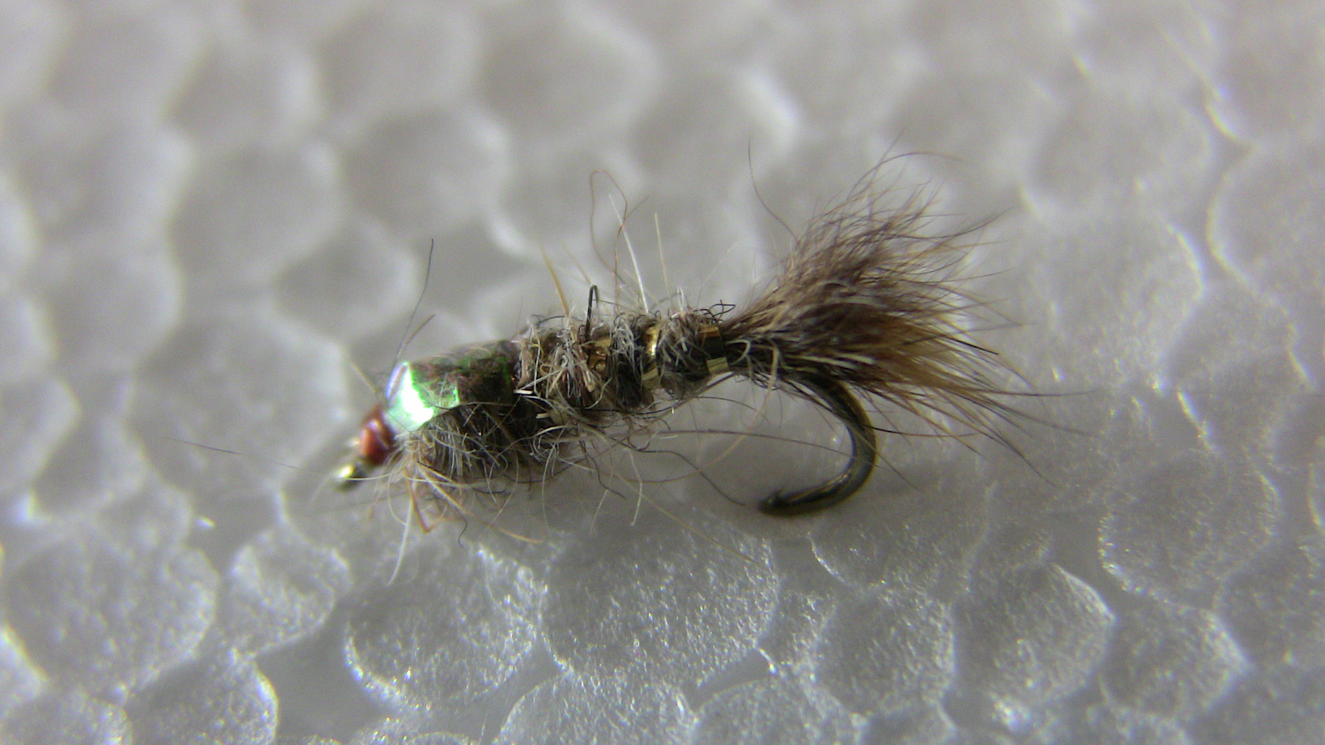 A fly tied using fur from the mask and ears of a hare. It has a flashy wingcase on it's back and gold ribbing throughout the length of it's body.